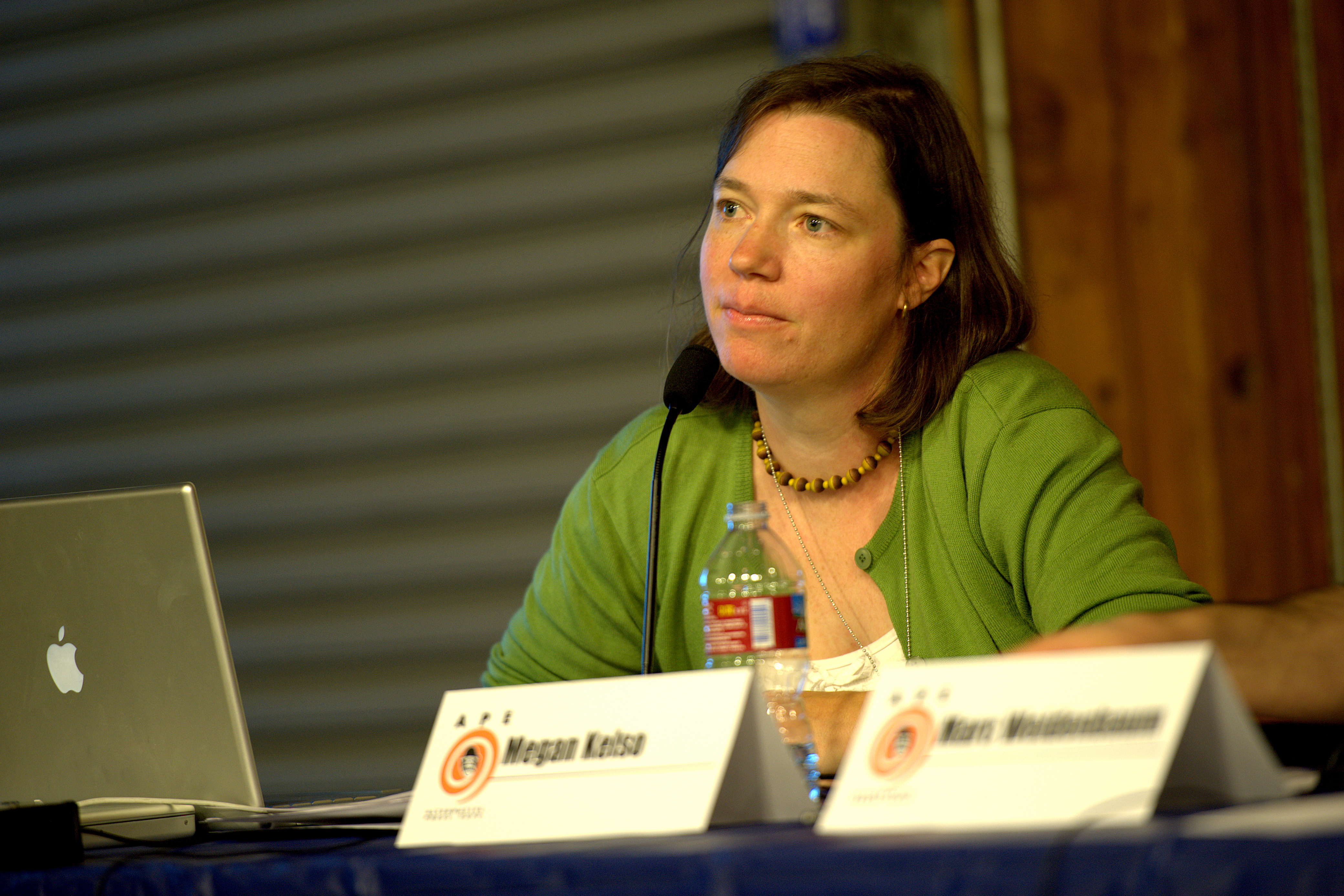 Portrait of cartoonist Megan Kelso by Guillaume Paumier at the Alternative Press Expo 2010, organized at the Concourse Exhibition Center in San Francisco, California, by Comic-Con International on Oct. 16-17, 2010.